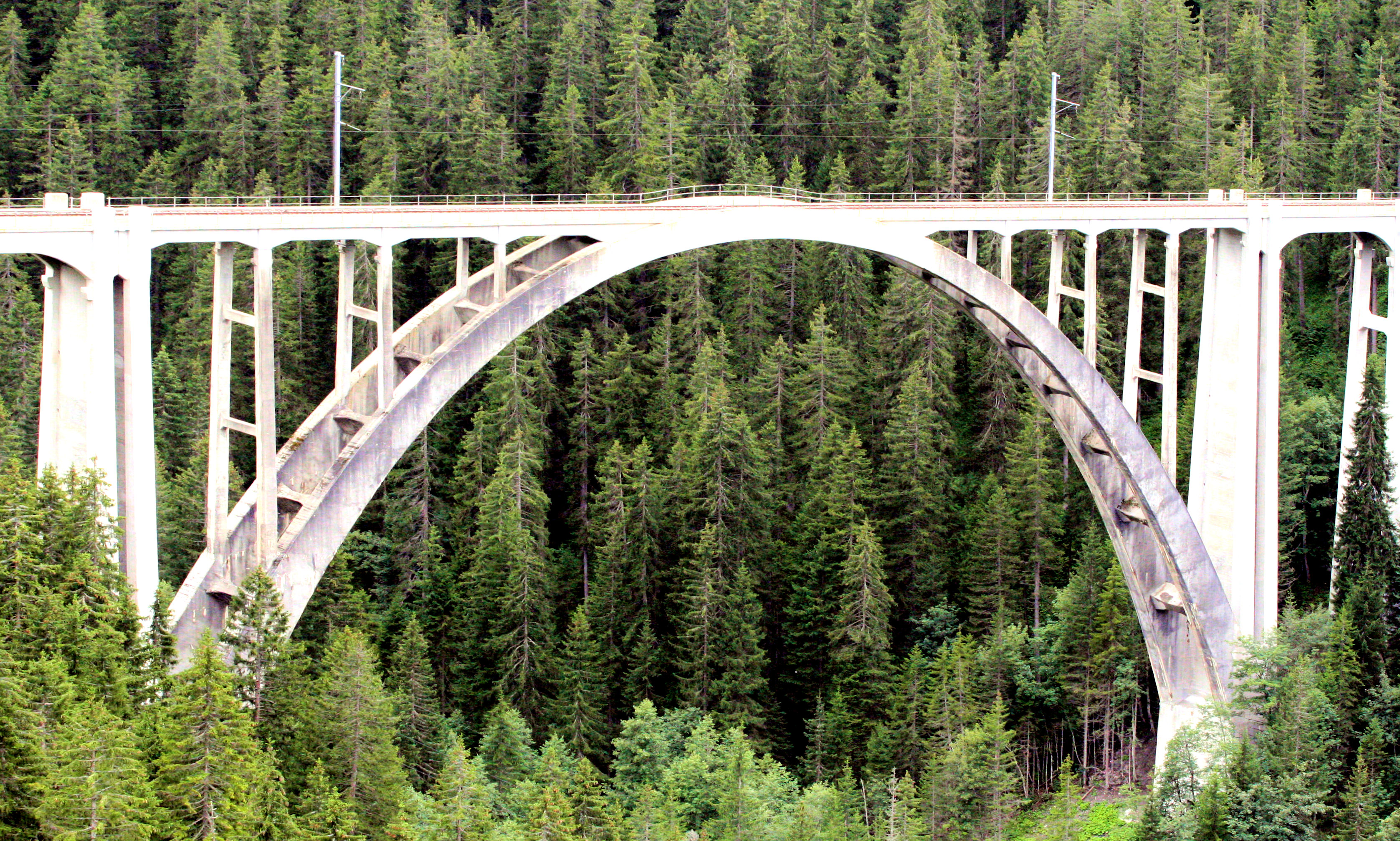 Langwies viaduct on the RhB Arosa line, Switzerland